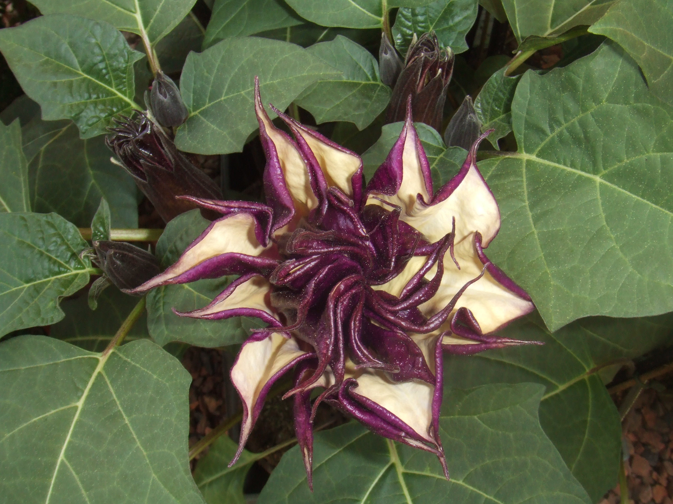 Datura metel 'Black Currant Swirl', Botanische Tuin TU Delft. It might be the same plant as Datura metel 'Fastuosa'.